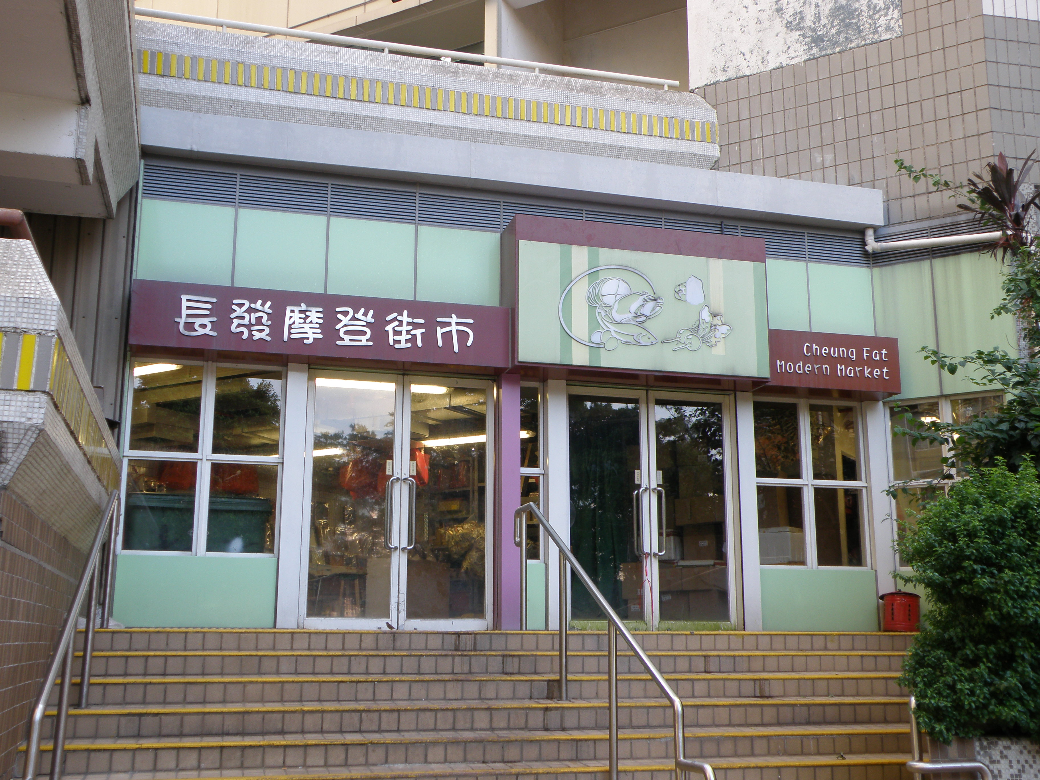 Cheung Fat Modern Market in Tsing Yi, Hong Kong.